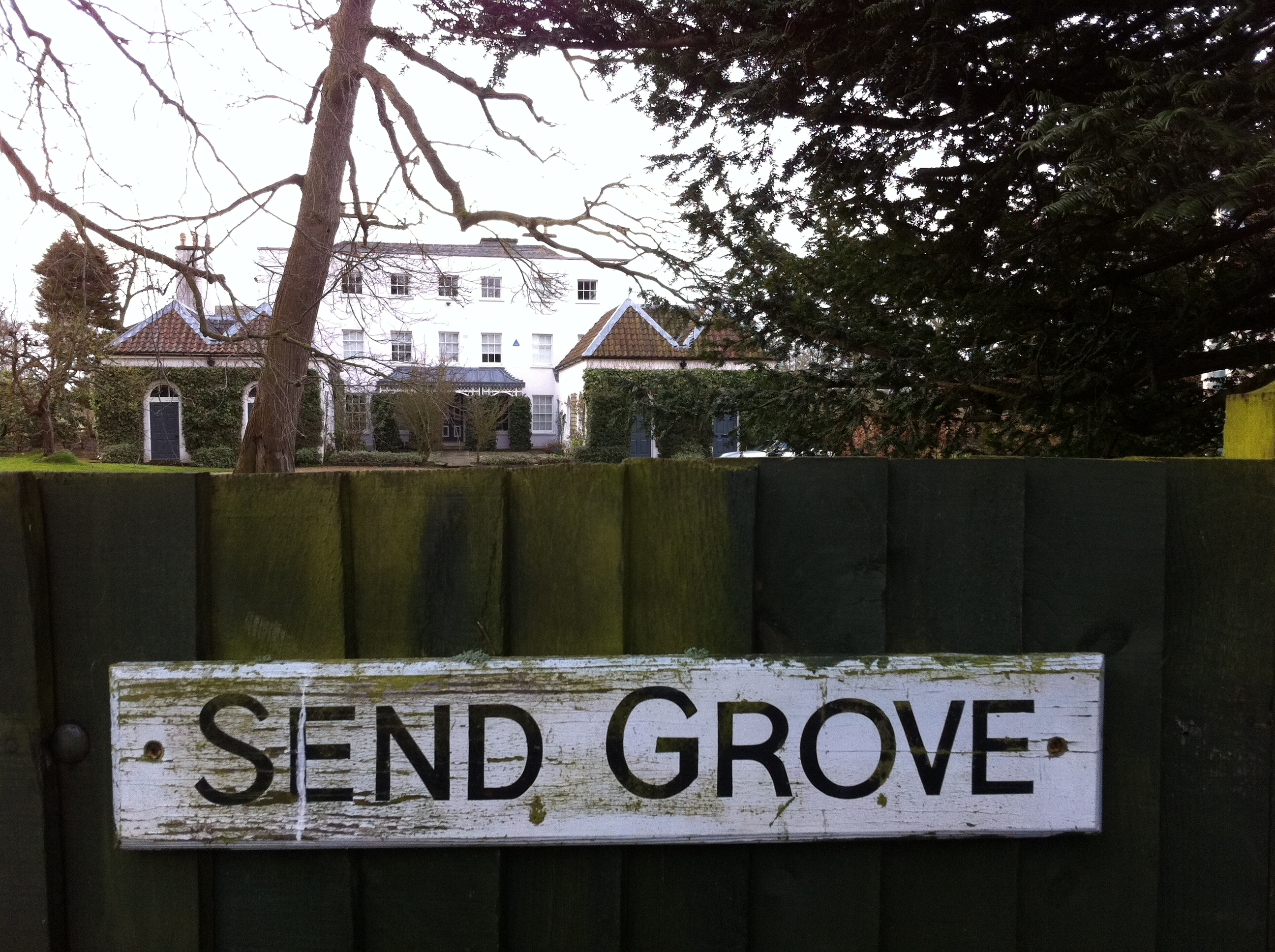 Send Grove in Send, Surrey, the front elevation of the 18th Century house viewed from the north. Church Lane, Send, Surrey.